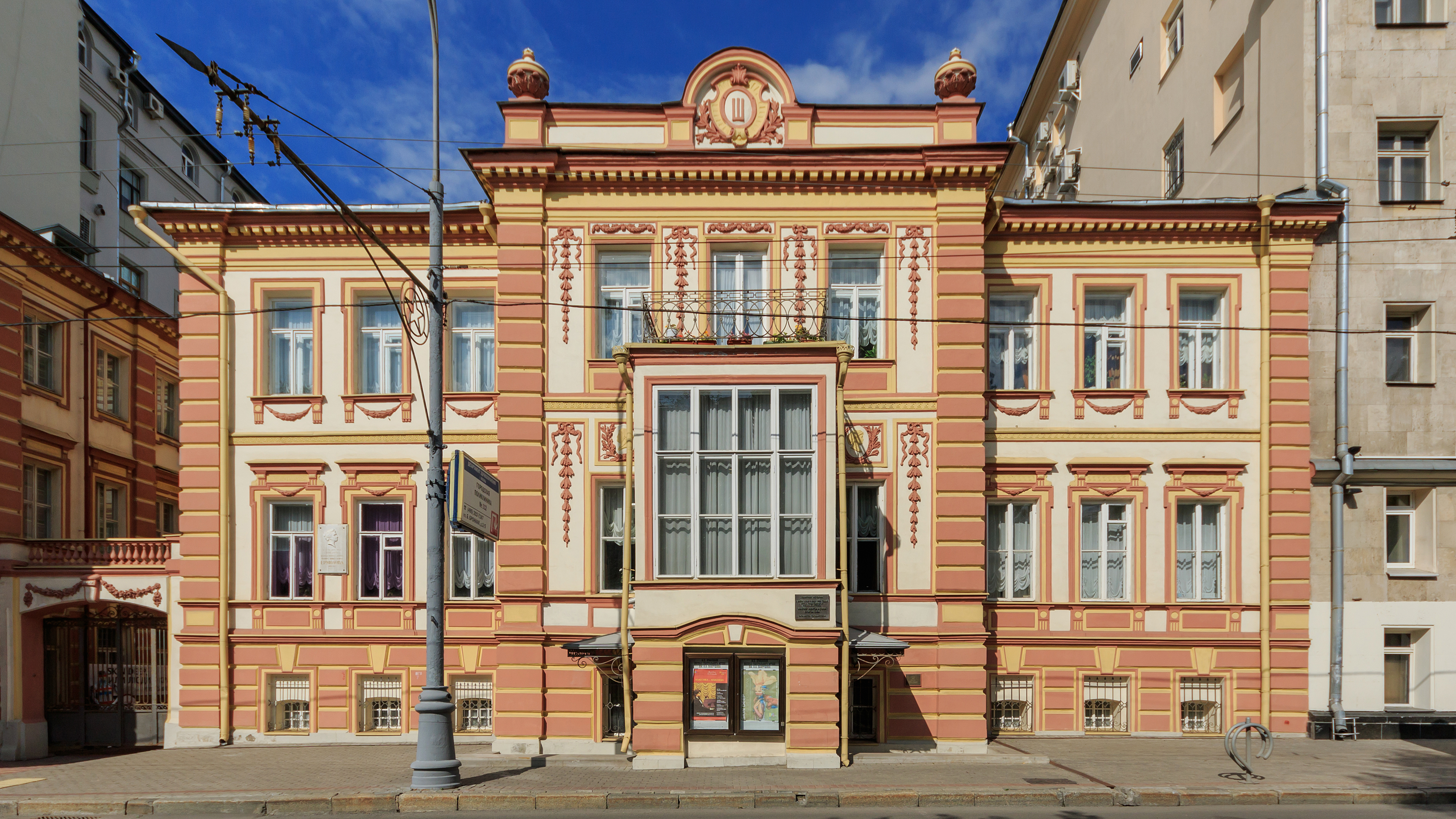 House at 11, Tverskoy Boulevard. Moscow, Russia.